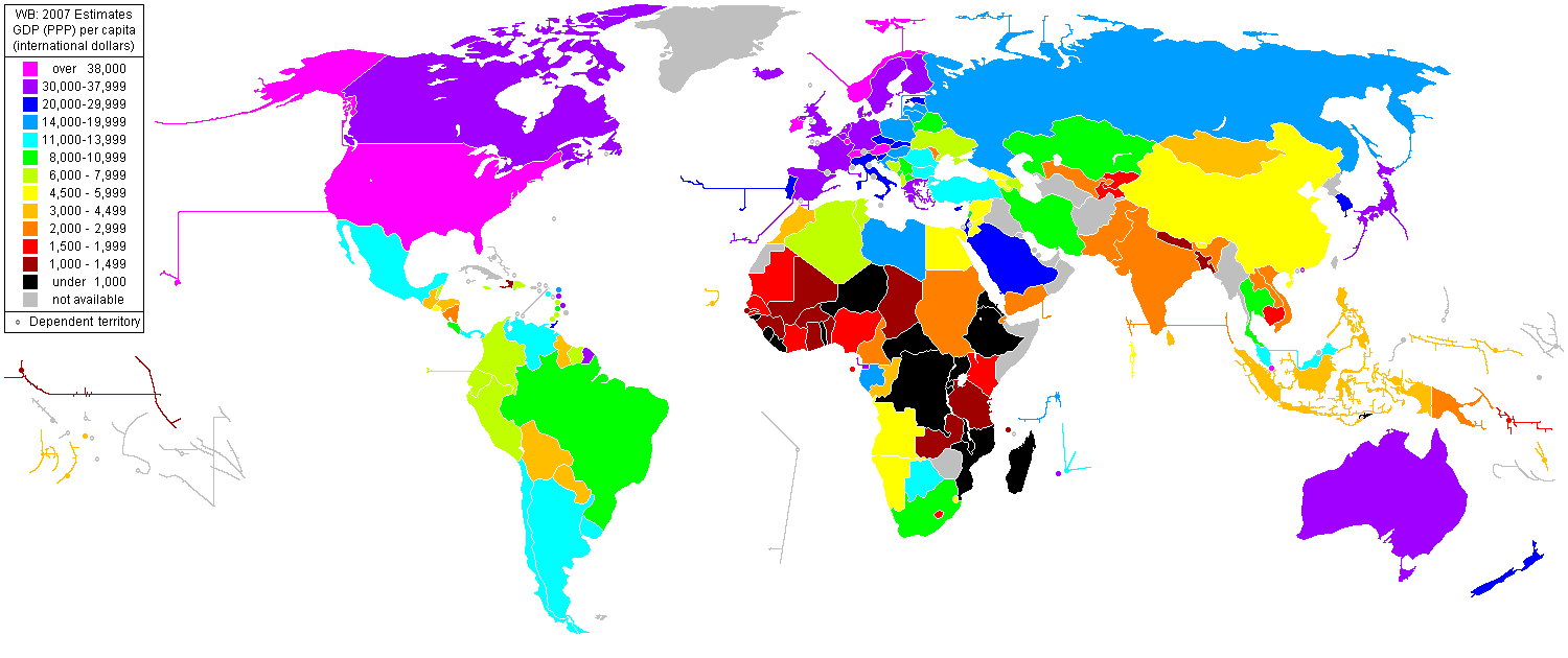 World map showing 2007 estimates about GDP (PPP) per capita (international dollars) over 38,000 30,000-37,999 20,000-29,999 14,000-19,999 11,000-13,999 8,000-10,999 6,000-7,999 4,500-5,999 3,000-4,499 2,000-2,999 1,500-1,999 1,000-1,499 under 1,000 not available